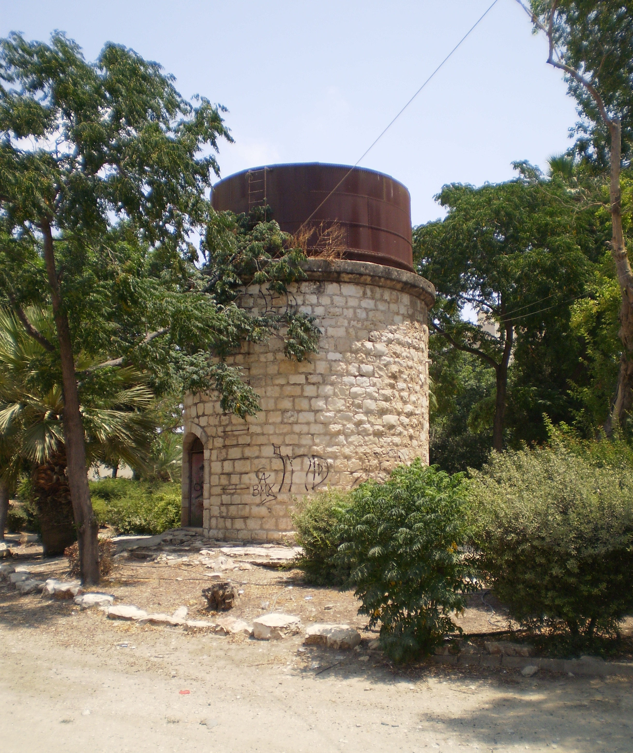 Water tower used by Jezreel Valley railway, Afula